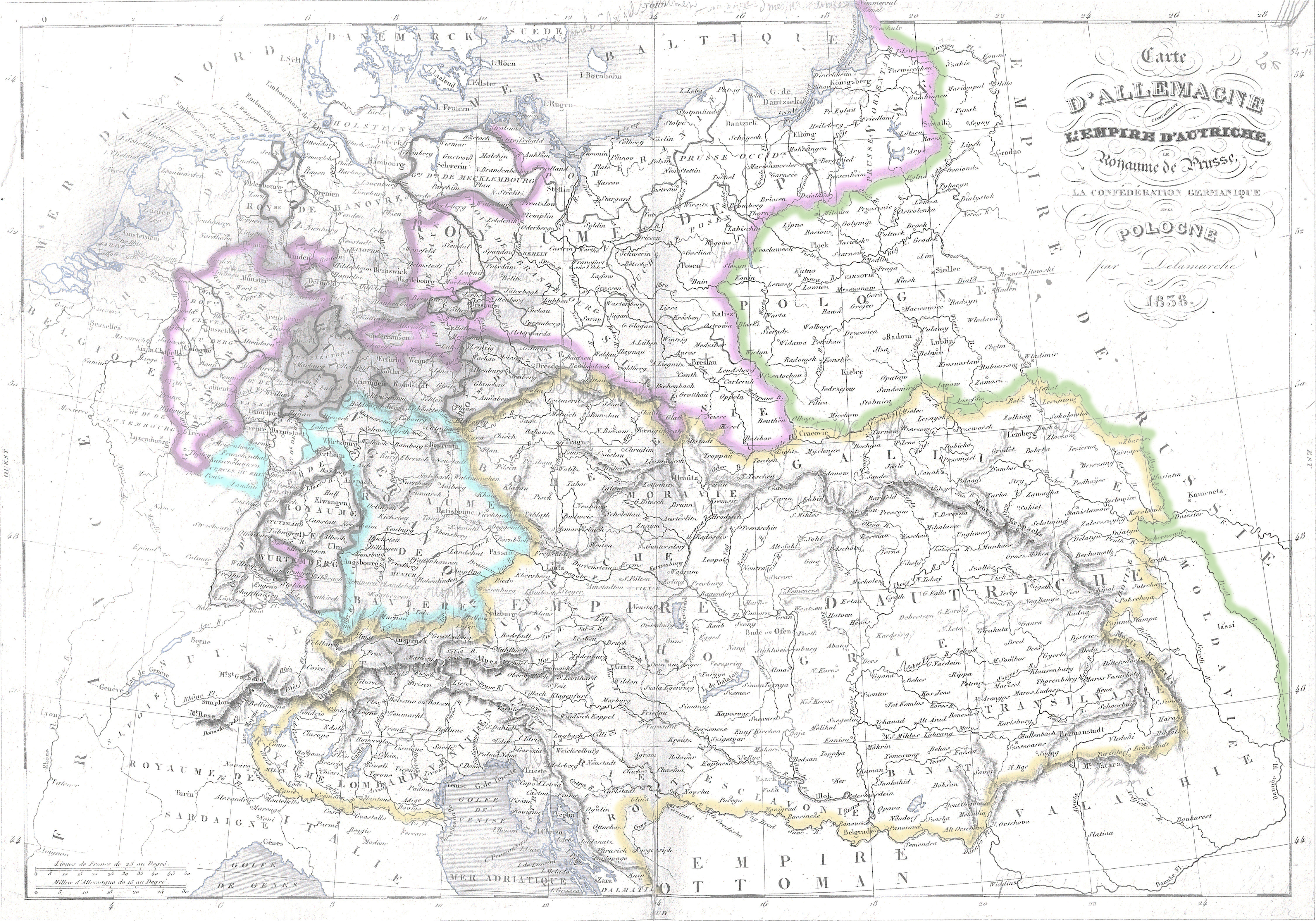 Old map of Germany, Austria, Poland and Central Europe by Felix Delamarche en 1838.